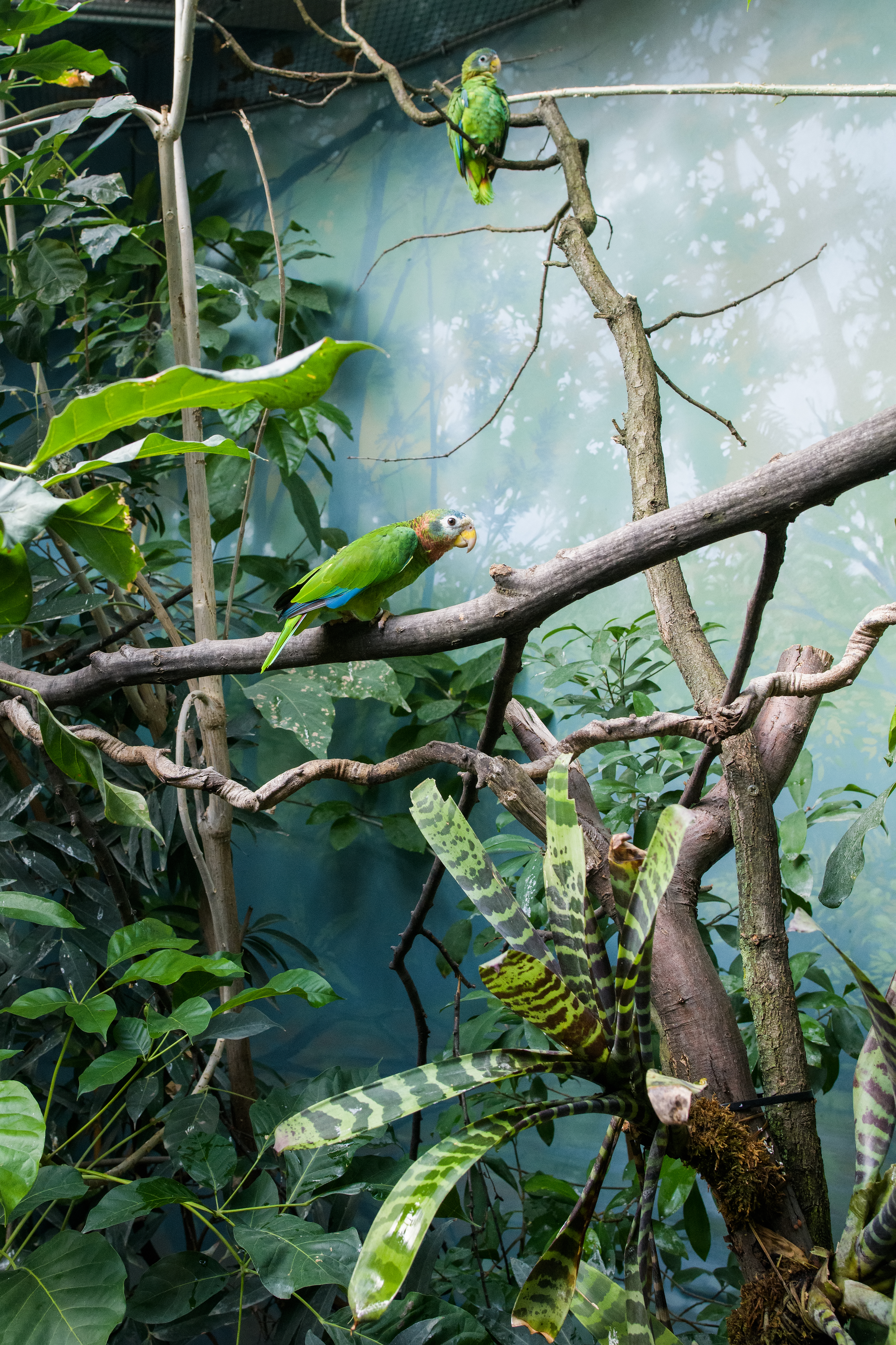 yellow-billed amazon in Rákos' House, Prague Zoo